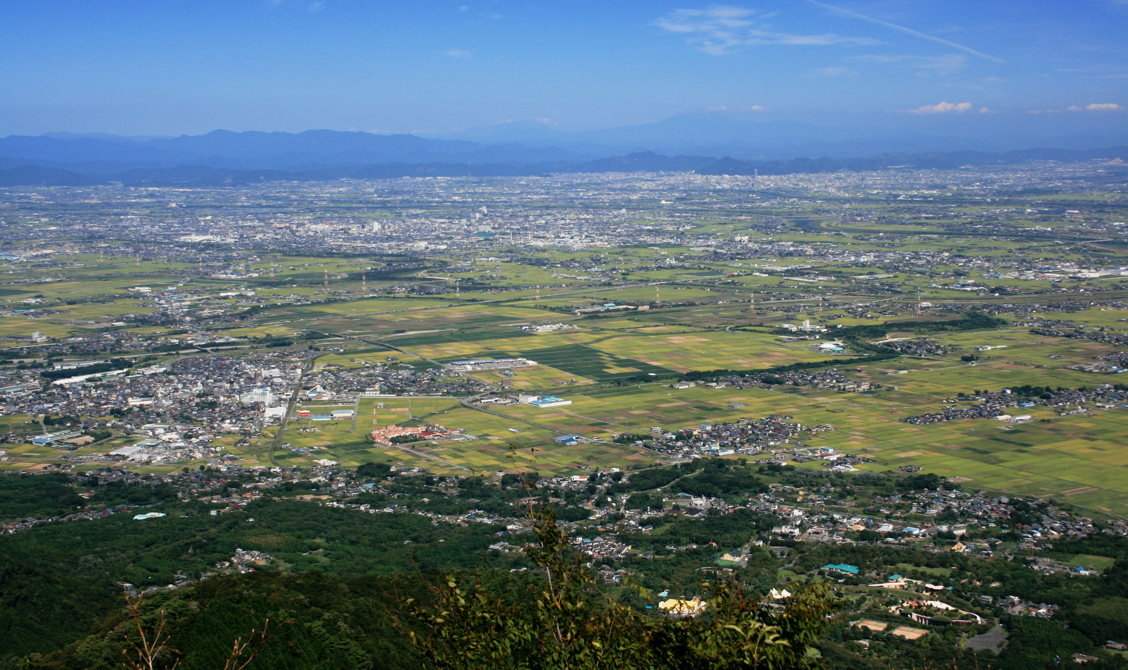 Yoro Town(Yōrō, Gifu) from Mount Sanpo of Yōrō Mountains